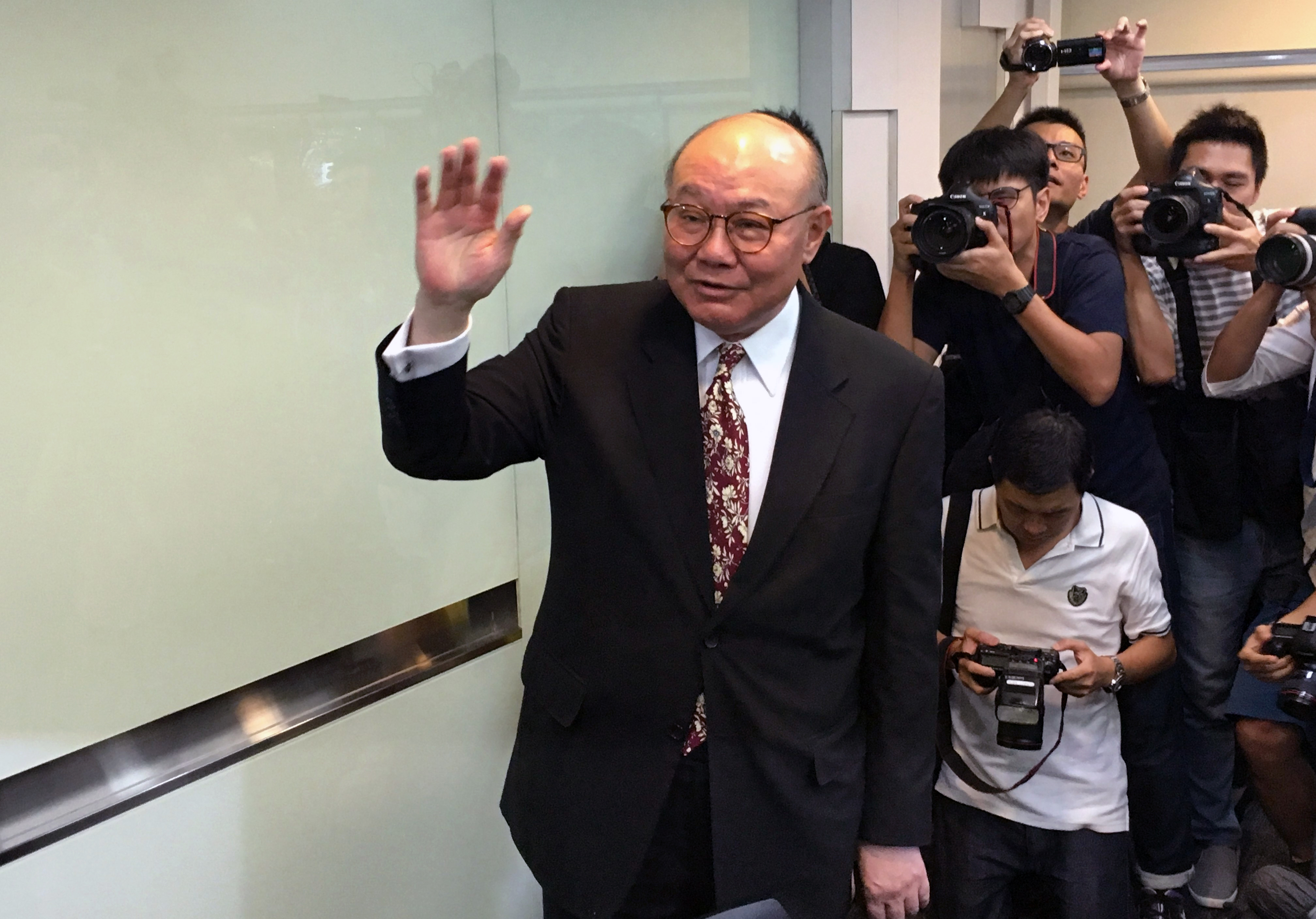 Woo Kwok-hing announced he would participate in the 2017 CE Election